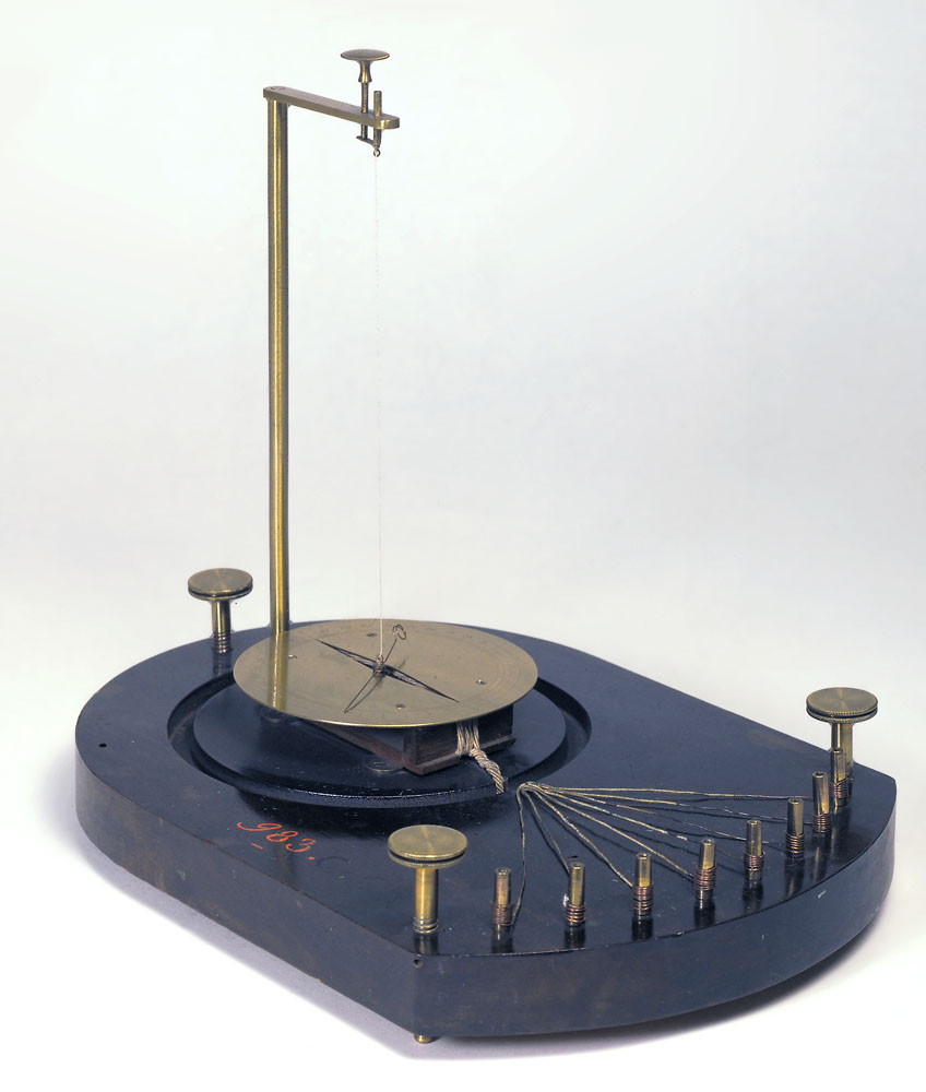 ArtistUnknownAuthorLeopoldo NobiliDescription